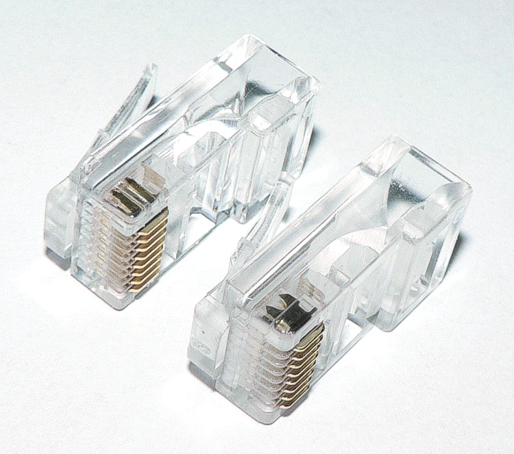 hardware RJ-45 connector uncrimped male